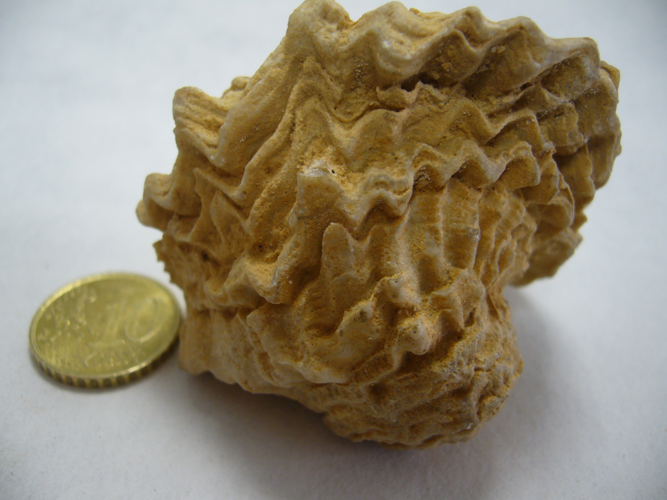 Radiolites sp. fossil (Late Cretaceous) found in Burgos, in a laboratory of practices of the Faculty of Sciences of the University of Corunna, Spain.